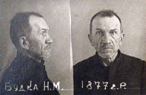 Nykyta Budka Ukr. Никита Будка (1877-1949) - Ukrainian Greek-Catholic Church bishop who suffered religious persecution and was martyred by the Soviet Government.